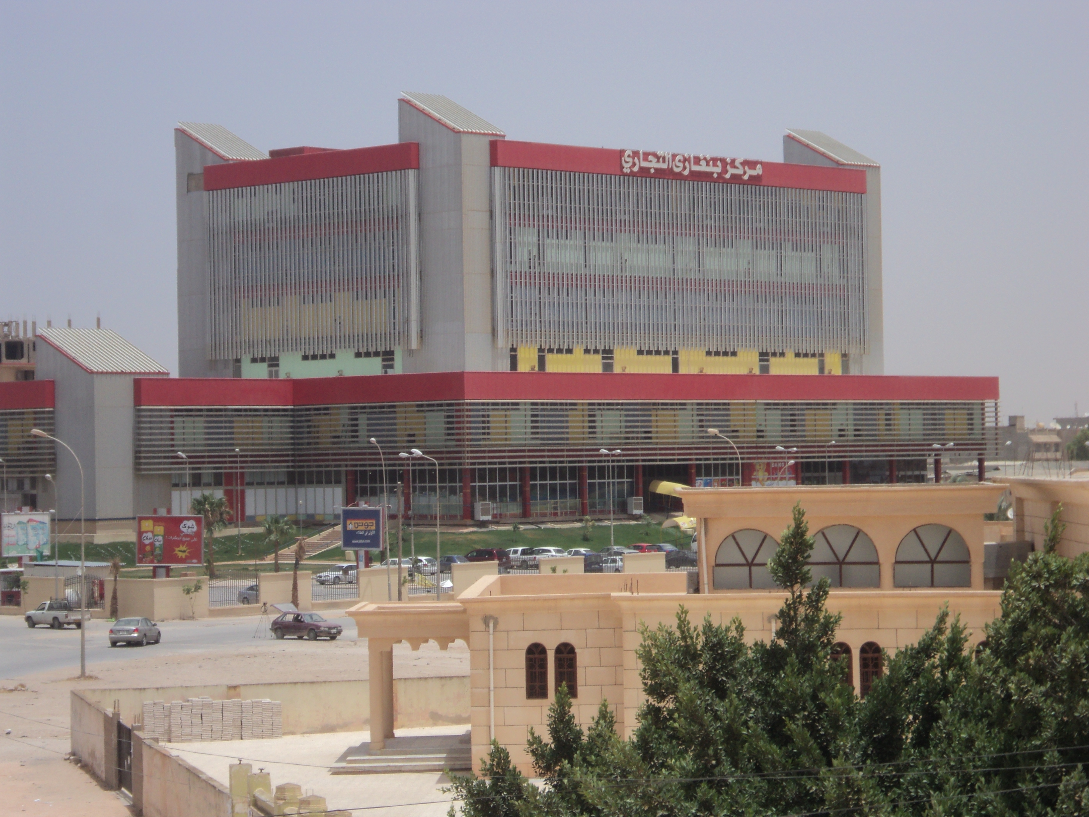 "Benghazi shopping center" in the Libyan city of Benghazi.